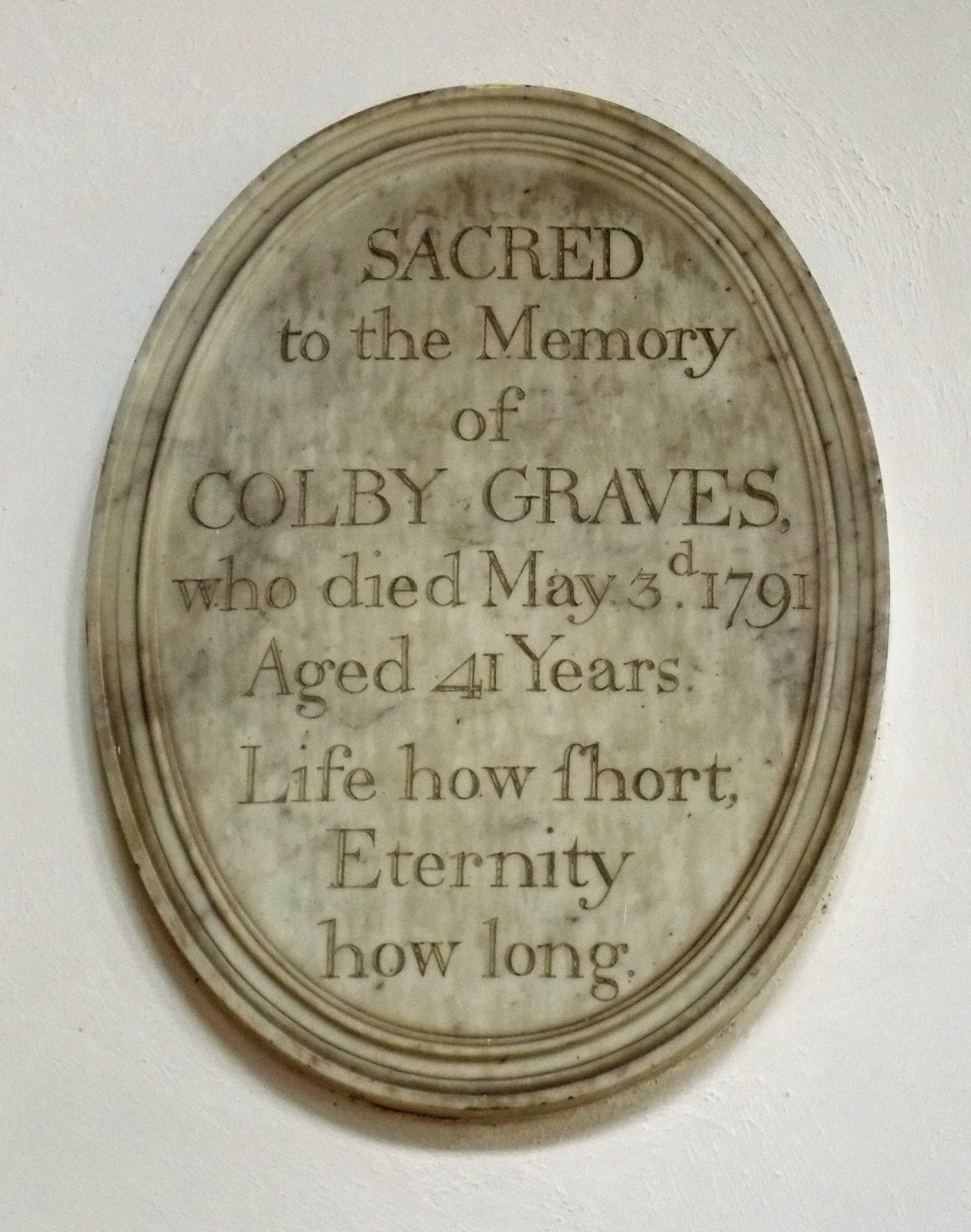 Aslackby St James, interior - North Aisle plaque 01